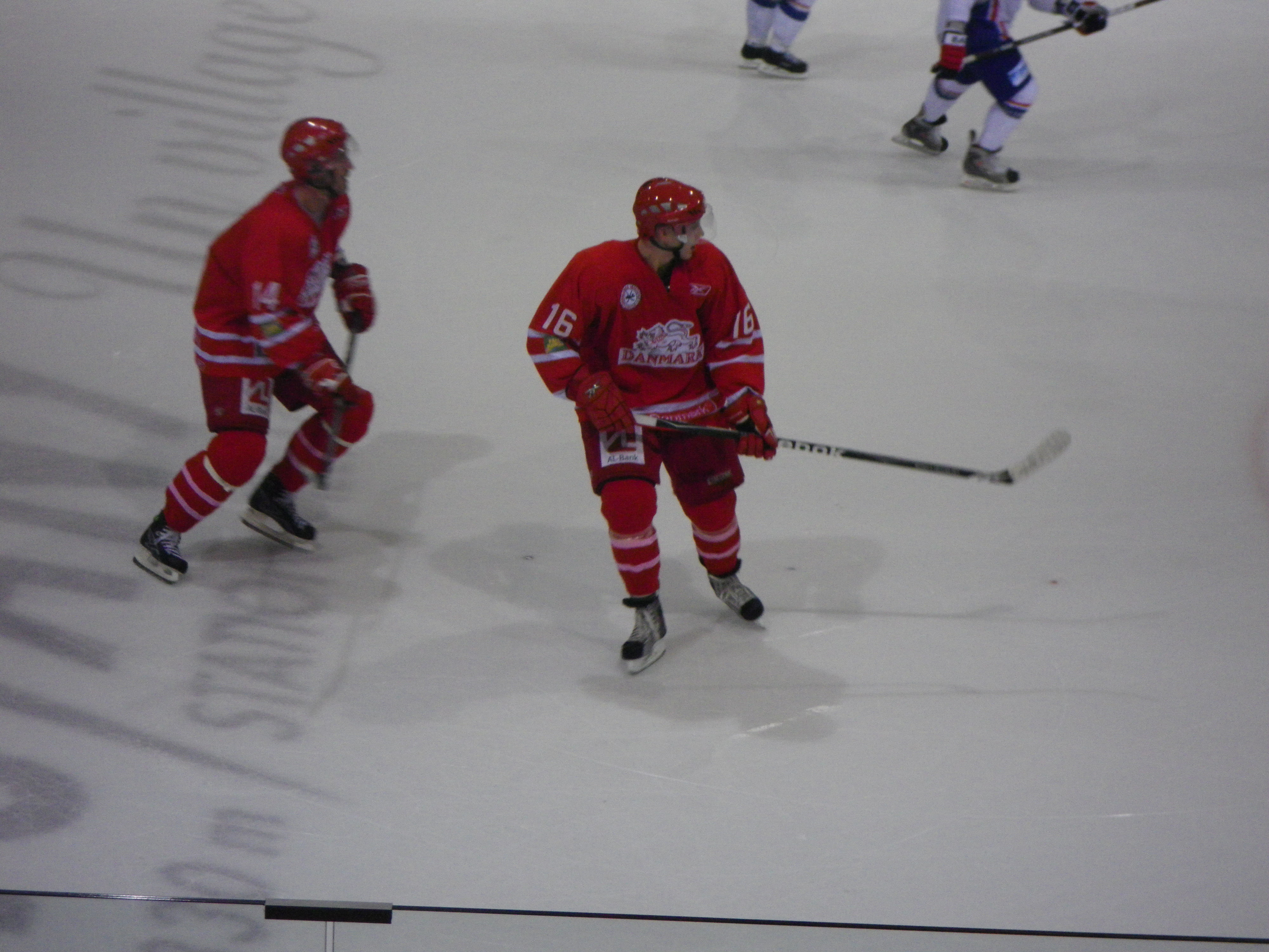 Lars Eller, danish ice hockey player with team Denmark. Friendly against team France.